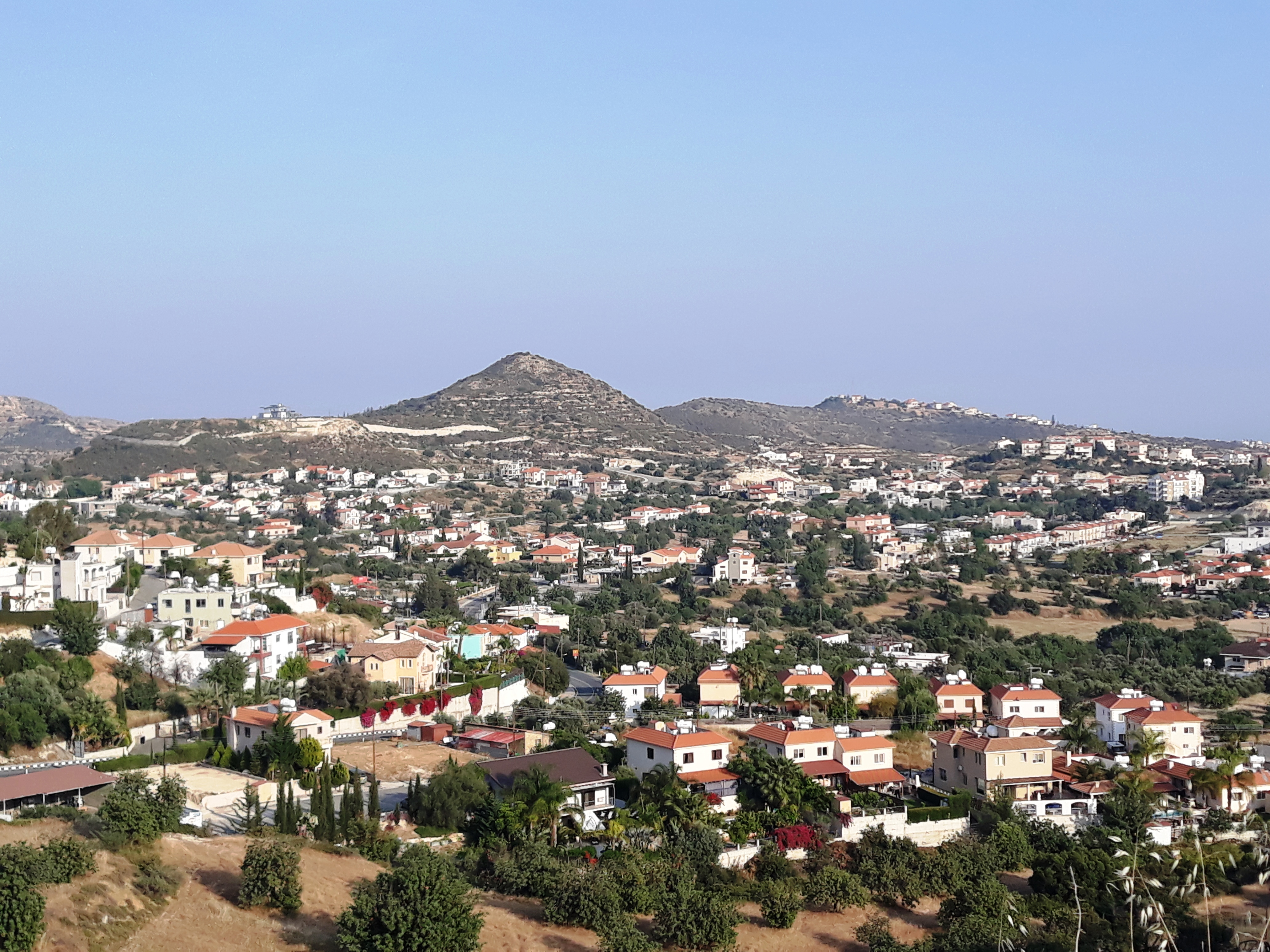 View of Palodeia.